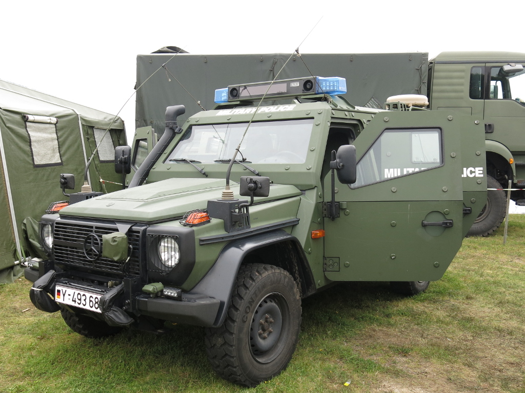 German Military Police version of LAPV Enok